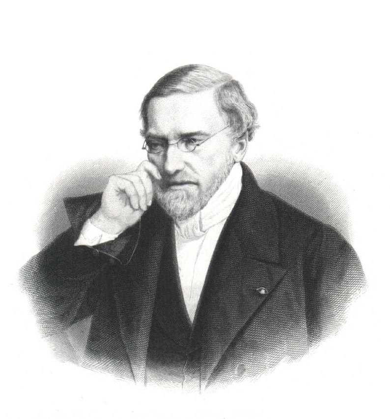 Jean-Victor Poncelet (1788–1867), French mathematician and engineer, Engraving. No info available for book source.